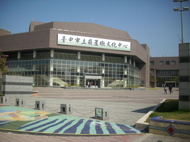 Taichung Municipal City Huludun Cultural Center中文（台灣）: 位在臺中市豐原區葫蘆墩文化中心。